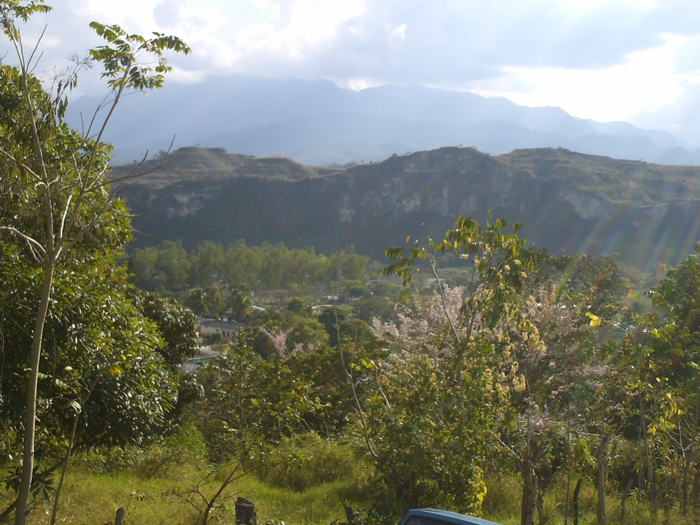 Las Flores, municipality in the Honduran department of Lempira.